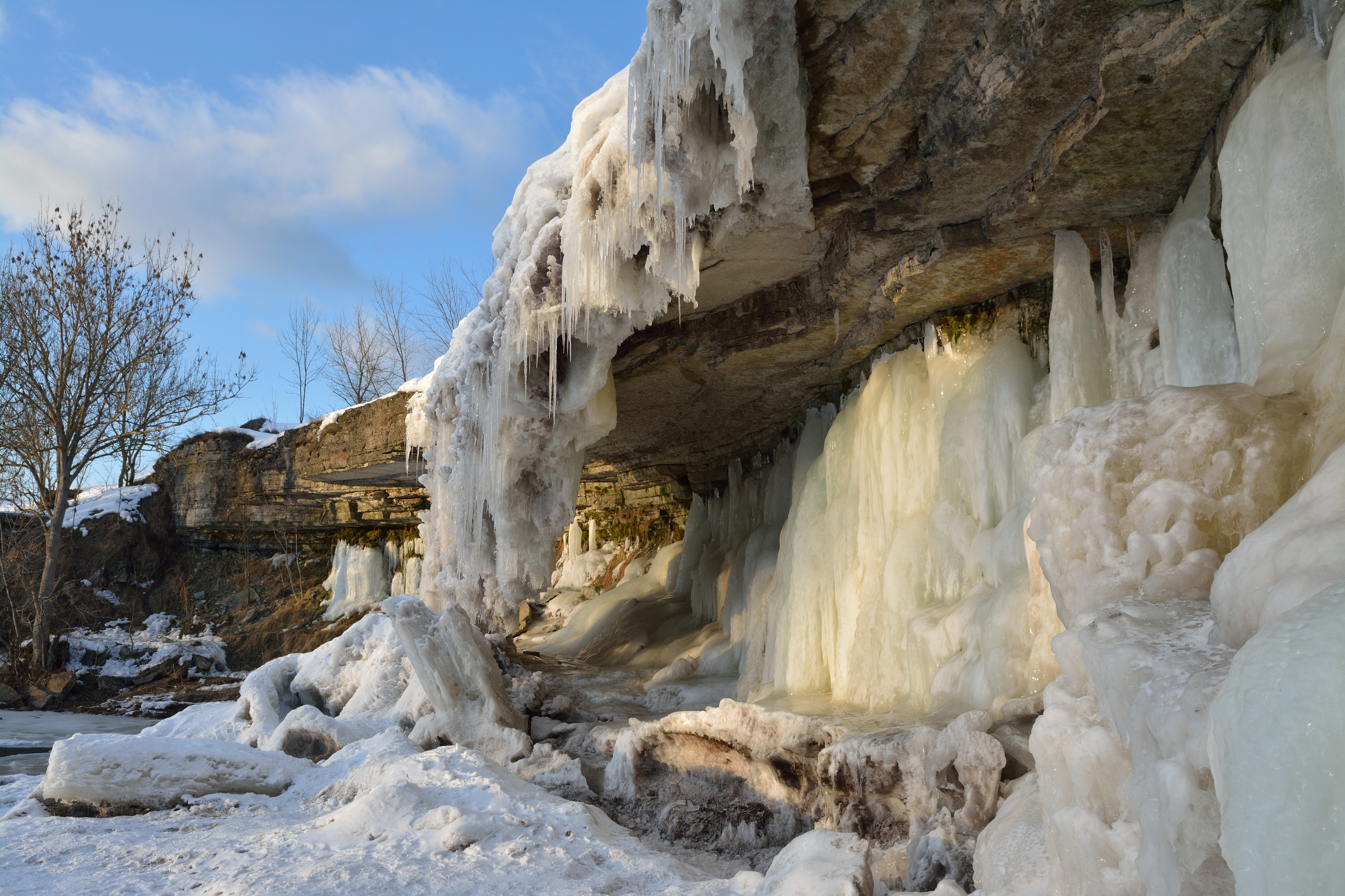 Jägala waterfall